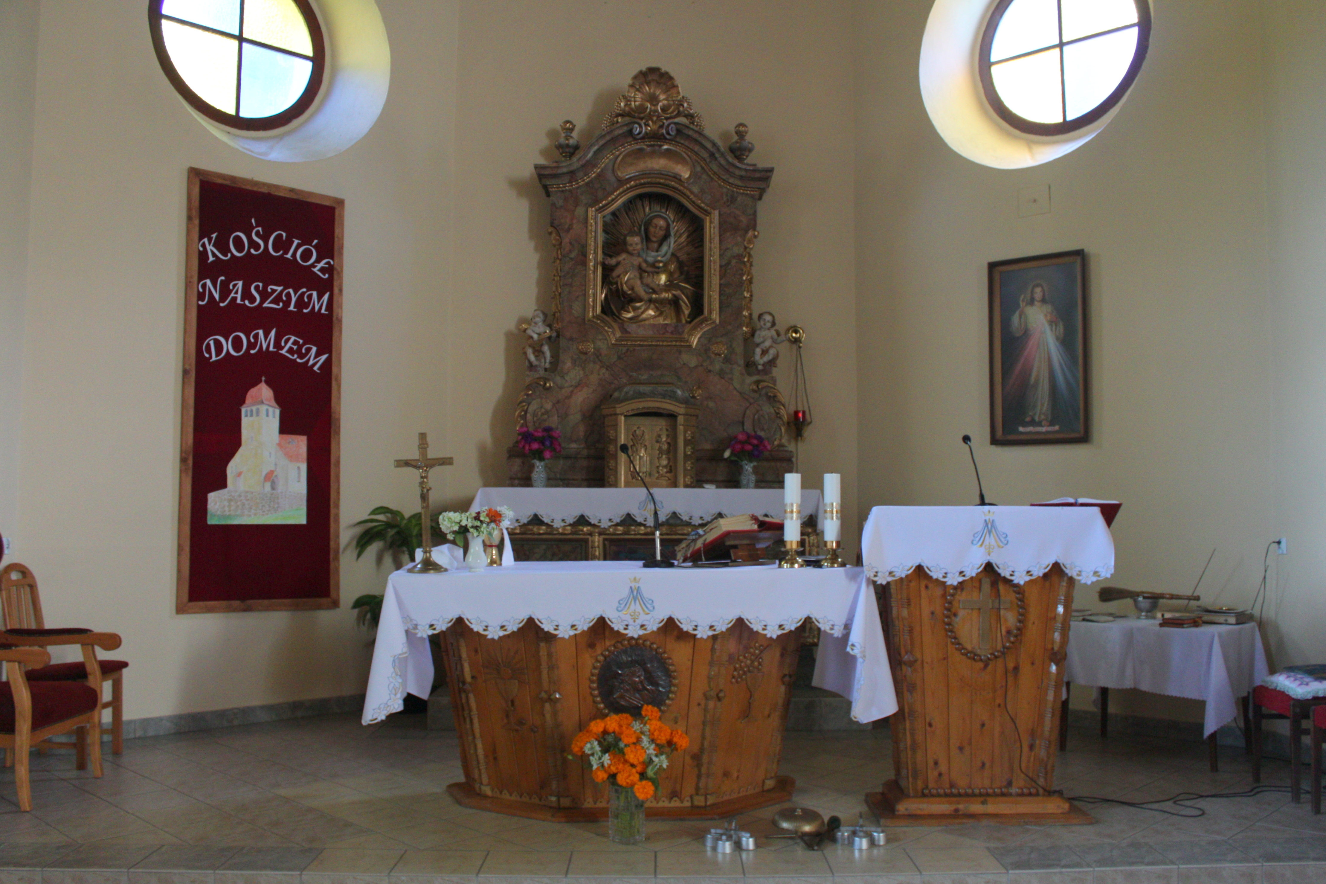 Mater Ecclesiae church in Baranowo.